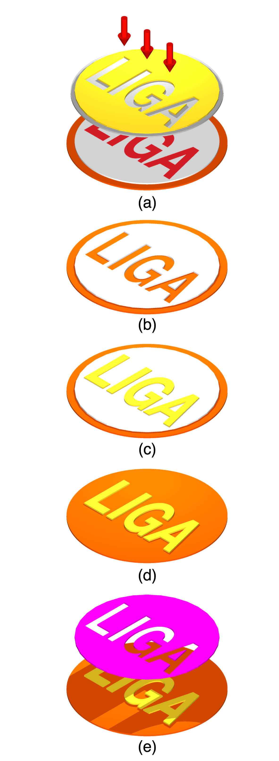 Five steps of the LIGA-fabrication process.